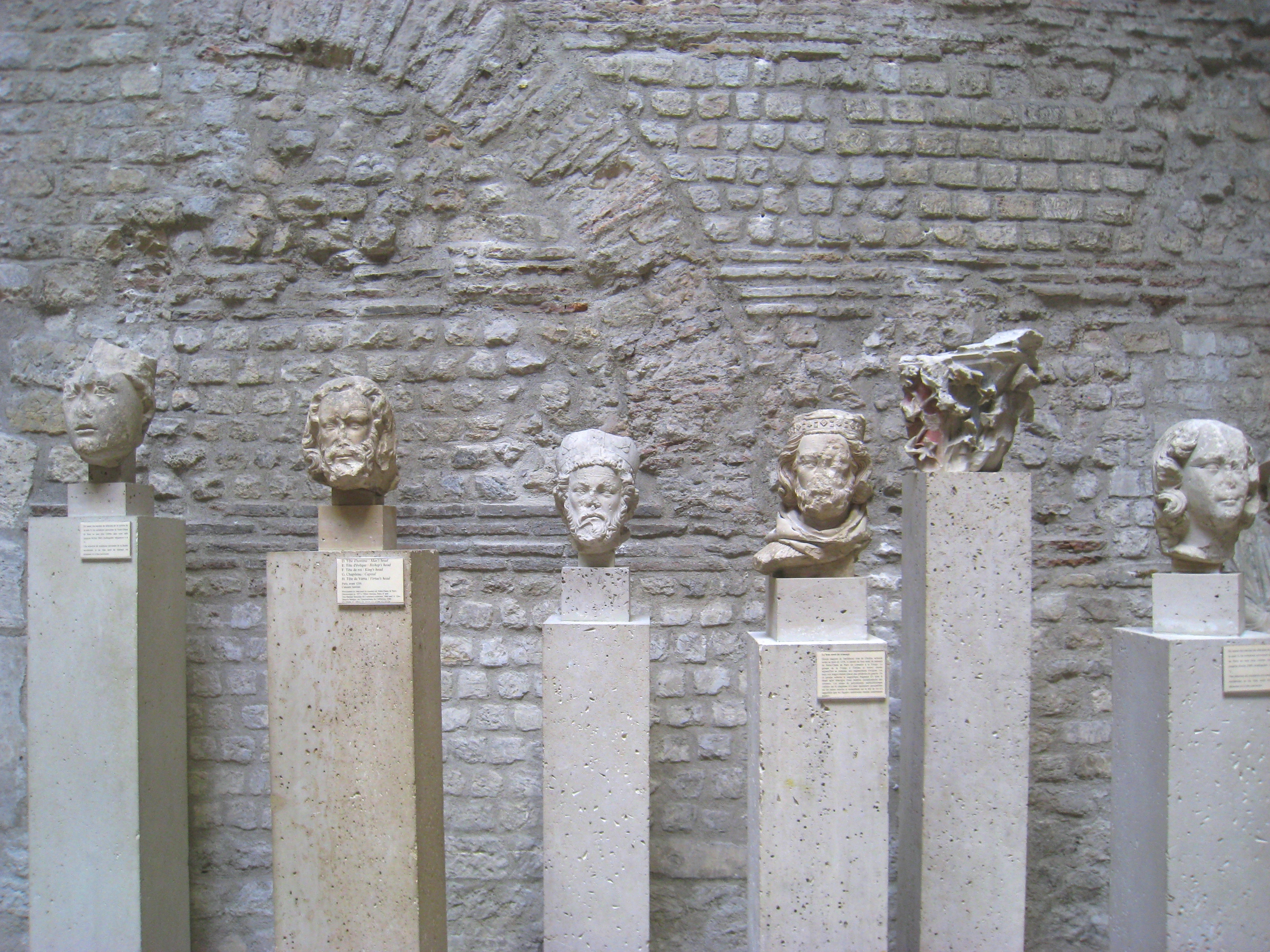 Hôtel de Cluny, Paris, France - heads. This work is from the middle ages, and the museum imposed no restrictions on photography (except for prohibiting flash) both in writing and when I explicitly asked. Thus the original work itself is free from intellectual property restrictions.